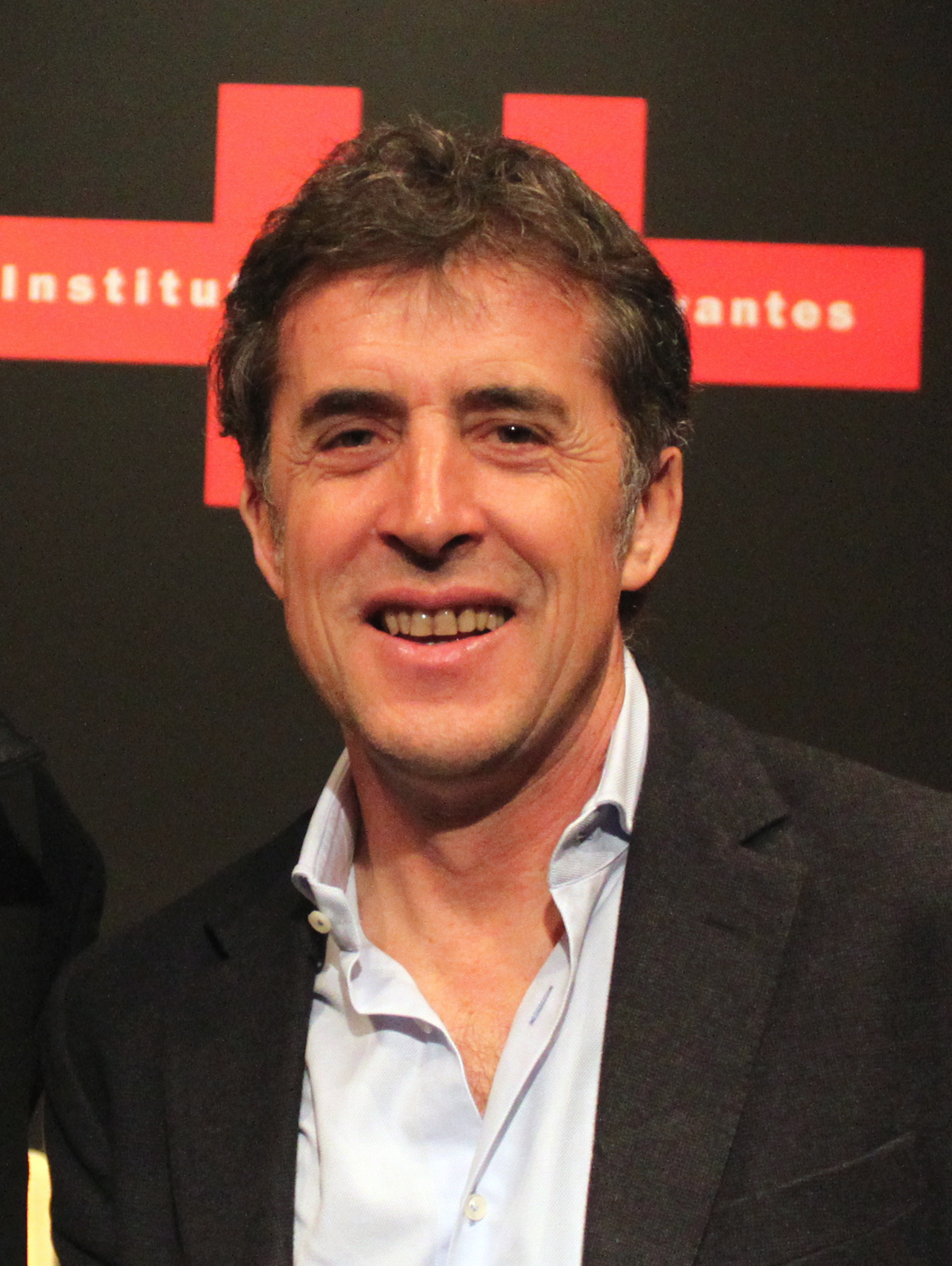 Javier Izquierdo, canciller de la Embajada de España en Japón, con Pedro Delgado. ハビエル・イスキエルド、ペドロ・デルガド。